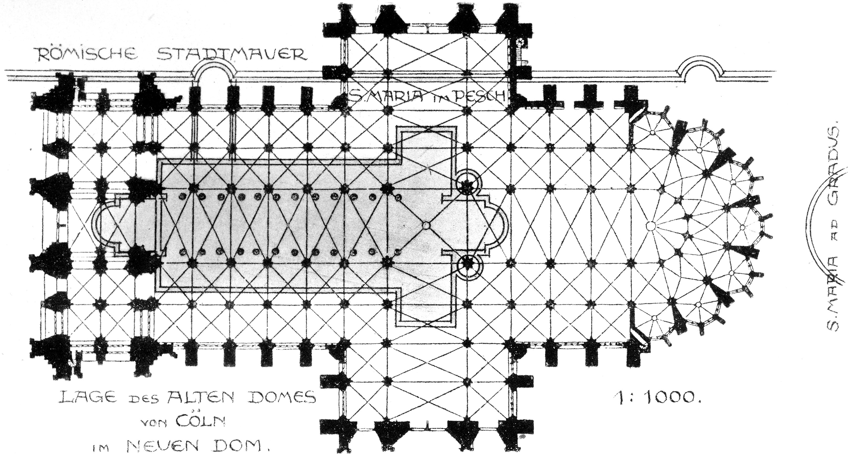 This is a scan of the historical document